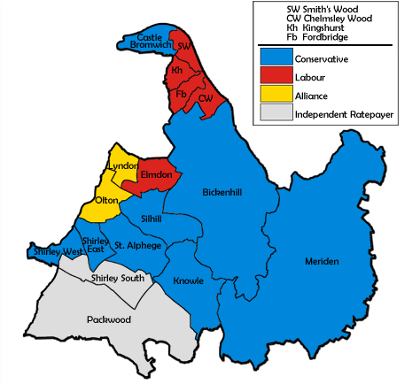 Ward map of Solihull Council with political colouring for the 1986 election.